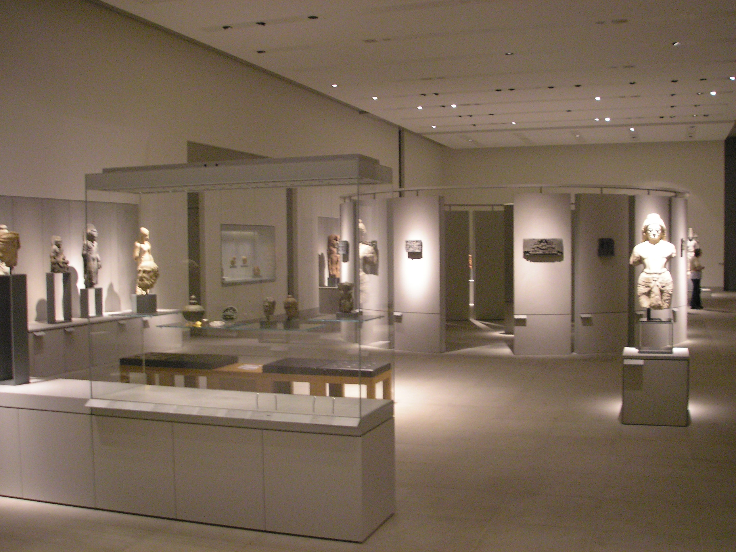 Interior view of the Museum für Asiatische Kunst, Kunstsammlung Süd-, Südost- und Zentralasien, Berlin-Dahlem. Museum of Asian Art Native nameMuseum für Asiatische KunstParent institutionBerlin State Museums LocationBerlinCoordinates52° 27′ 21″ N, 13° 17′ 33″ E Established4 December 2006Web page[1]Authority control : Q370045 VIAF: 153451772 ISNI: 0000 0004 4893 5104 LCCN: no2007157600 GND: 10163291-5 SUDOC: 146108868 WorldCat institution QS:P195,Q370045